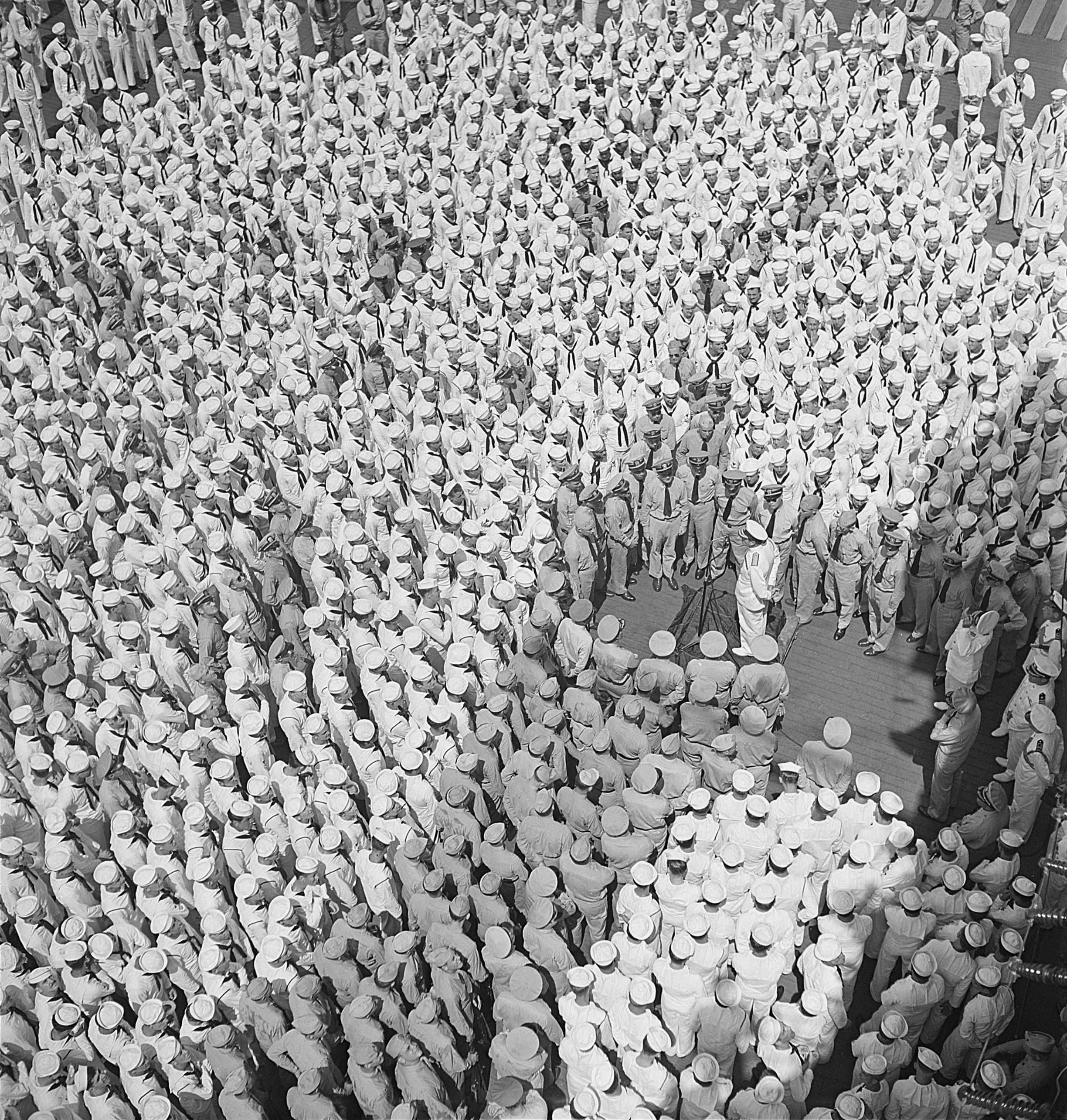 General notes: Use War and Conflict Number 954 when ordering a reproduction or requesting information about this image.